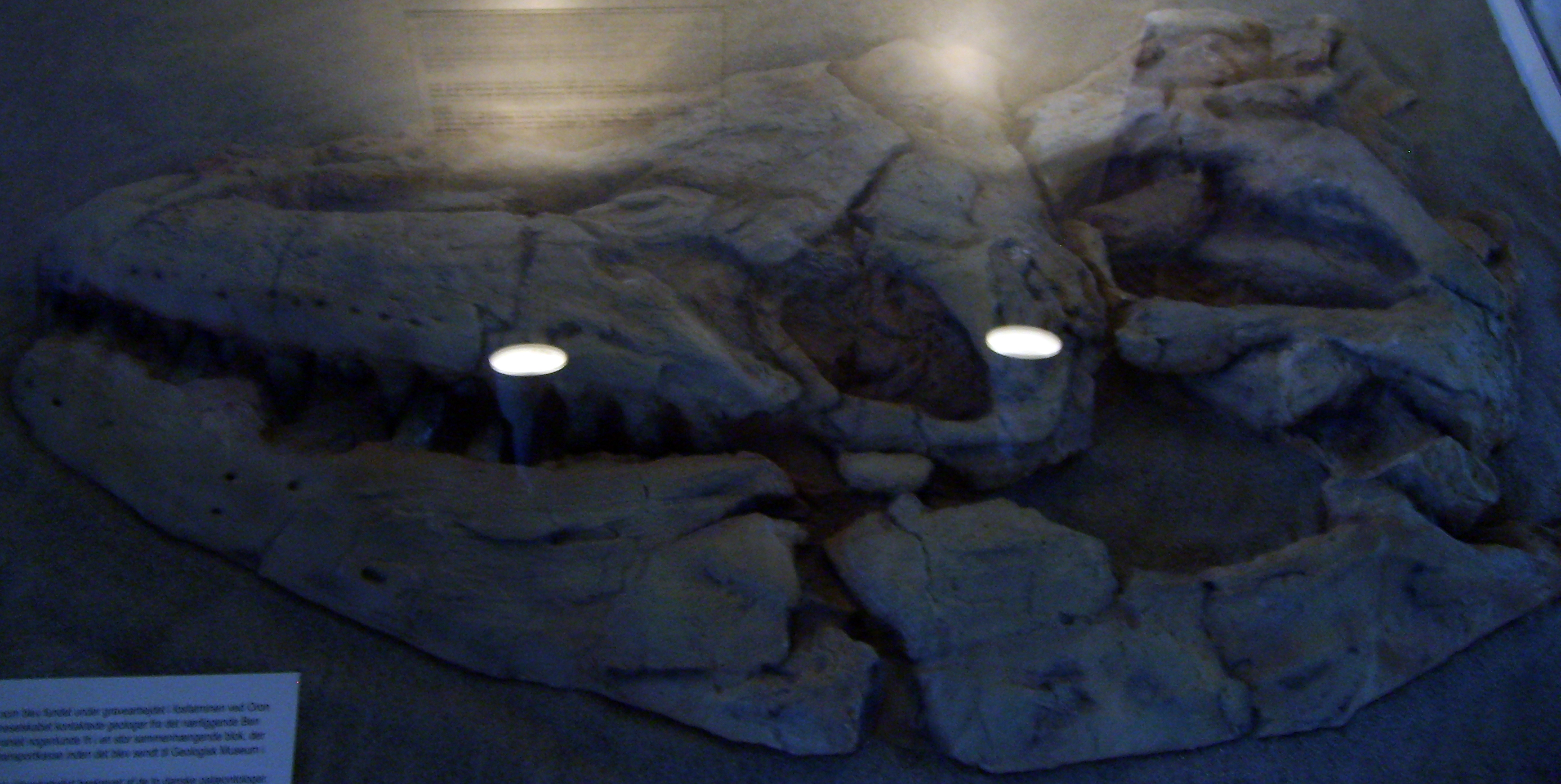 Prognathodon currii skull cast at the Geological Museum in Copenhagen. Has also been referred to as Oronosaurus.